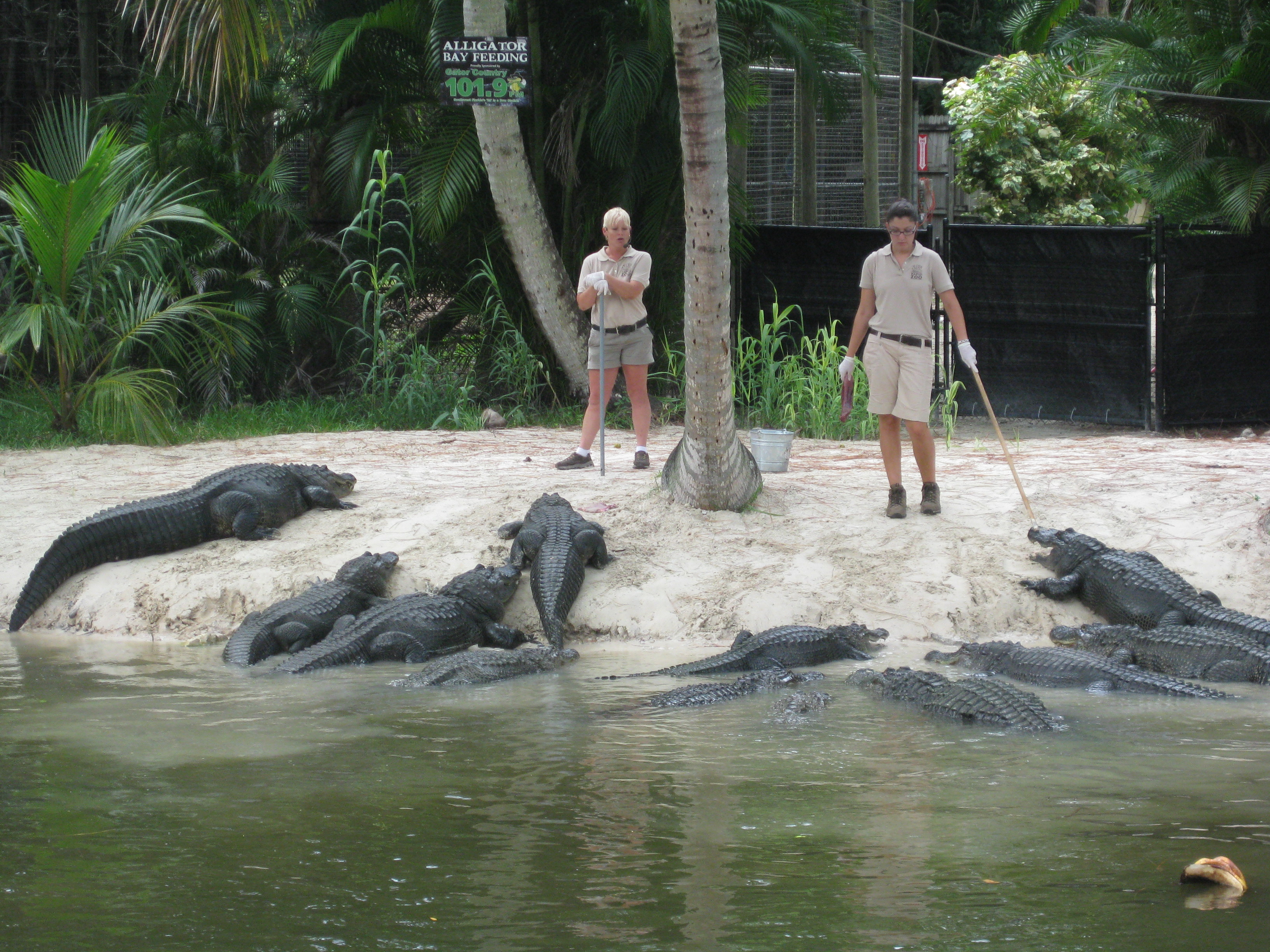 Alligator Zoo at Naples Zoo, Naples, Florida